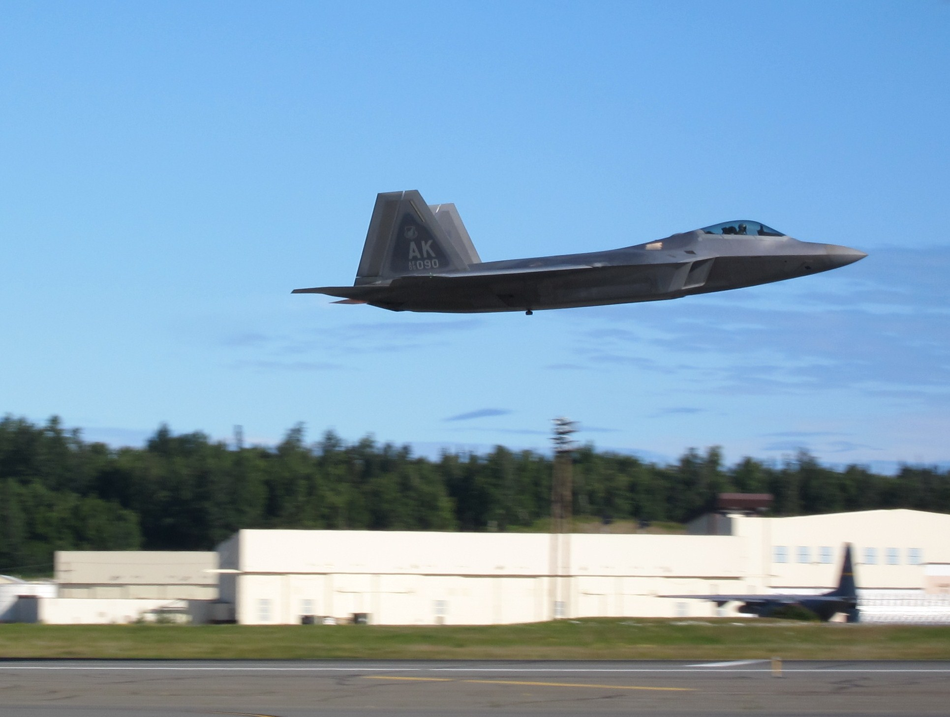 An F-22 Raptor during take-off, at the 2012 Arctic Thunder Air Show, Elmendorf AFB, Anchorage Alaska